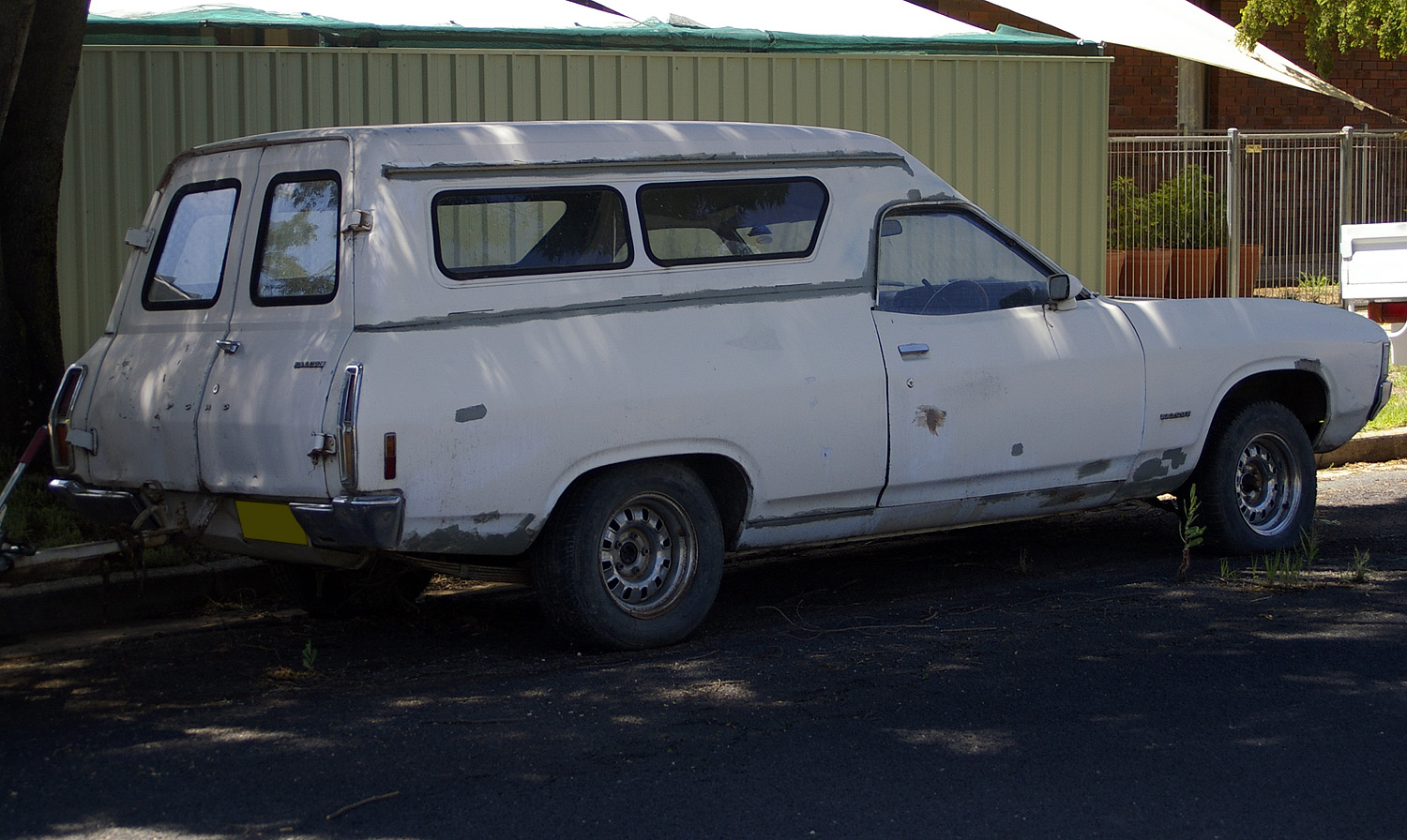 Ford XA Falcon panel van (1972-1973)